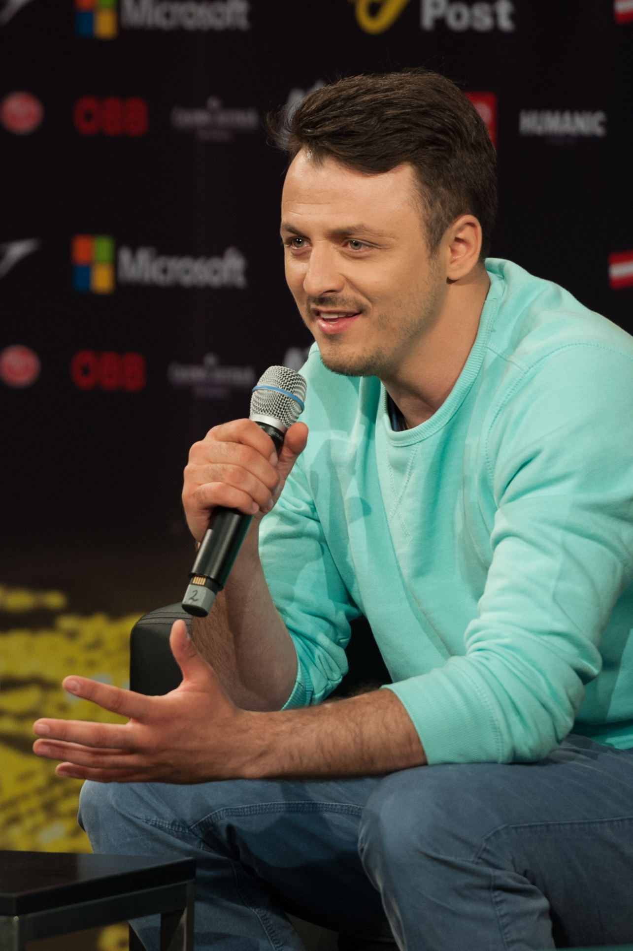 Eurovision Song Contest Vienna 2015: Daniel Kajmakoski